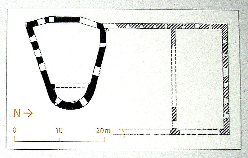 Fluhenstein castle (Berghofen, Stadt Sonthofen, Landkreis Oberallgäu, Bavaria, Germany). Plan (Information board at the castle)